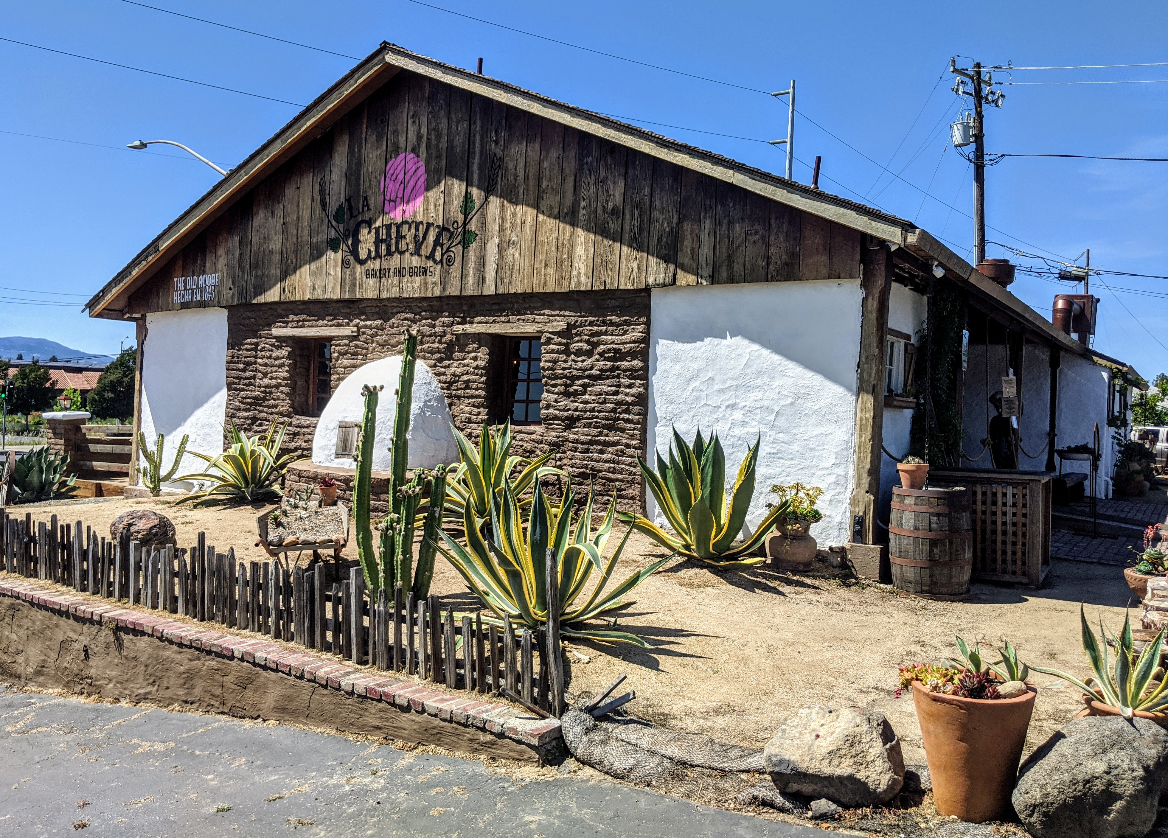 The Cayetano Juarez Adobe in Napa, California, built in 1845.